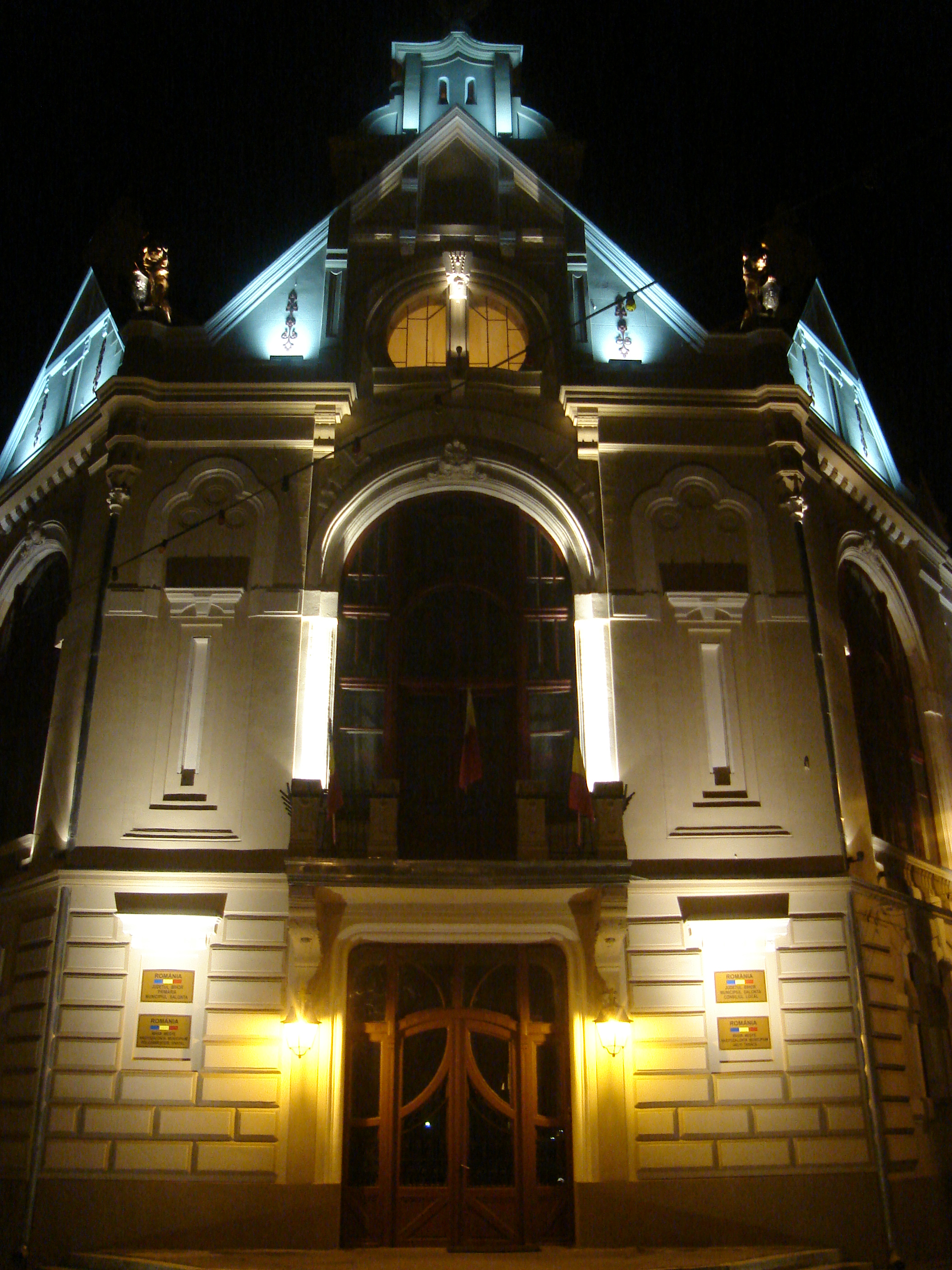 Salonta Town hall (at night)